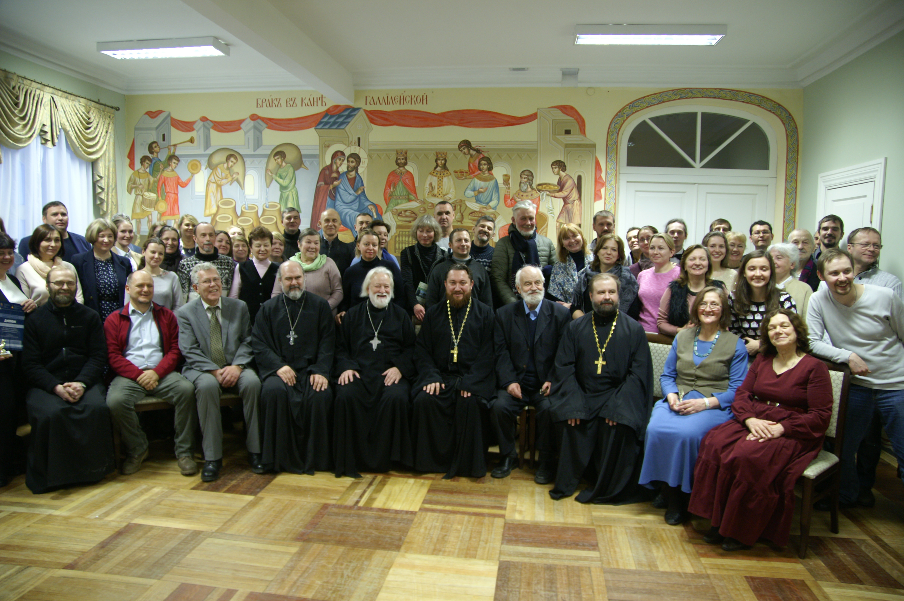 III Congress of family clubs sobriety, Donskoy Monastery, January 26, 2019